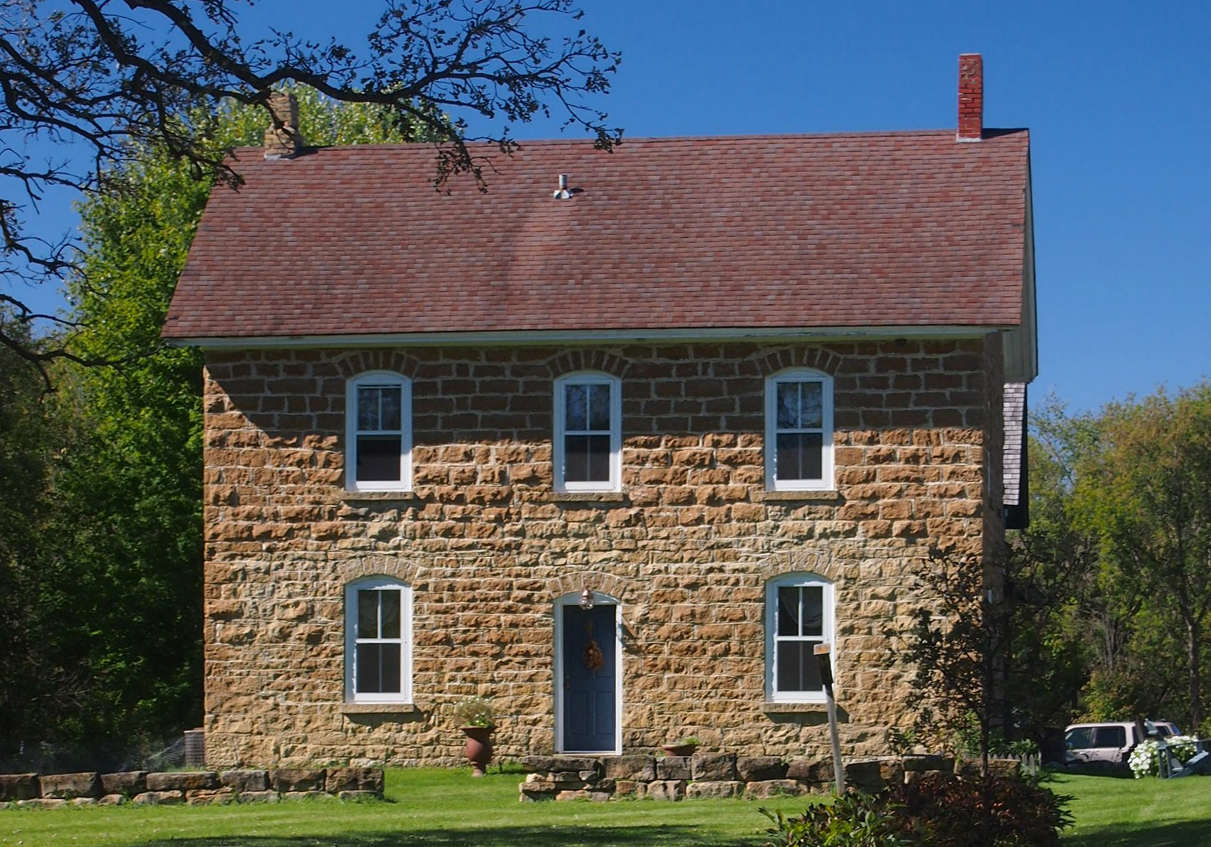 Abraham Bisson House, 20150 County Rd 57, St Lawrence Township, Minnesota, USA. Viewed from the east.